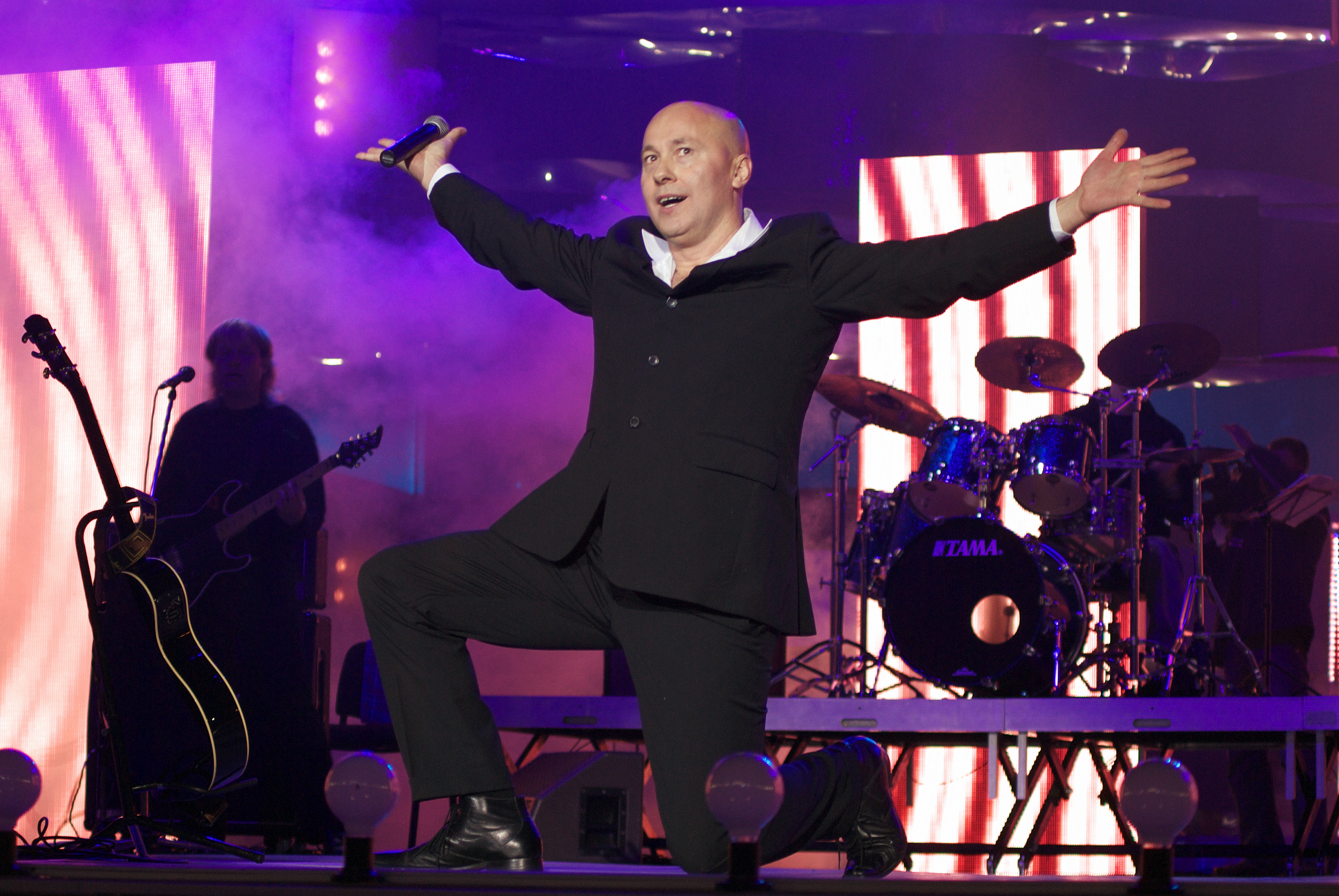 Alexander Soloduha